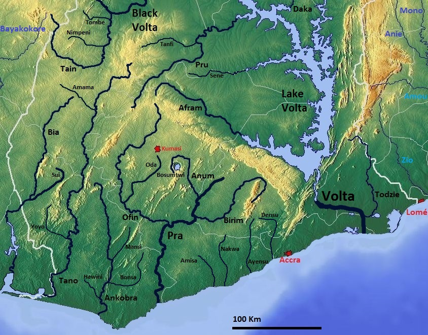 Rivers in the south of Ghana OSM